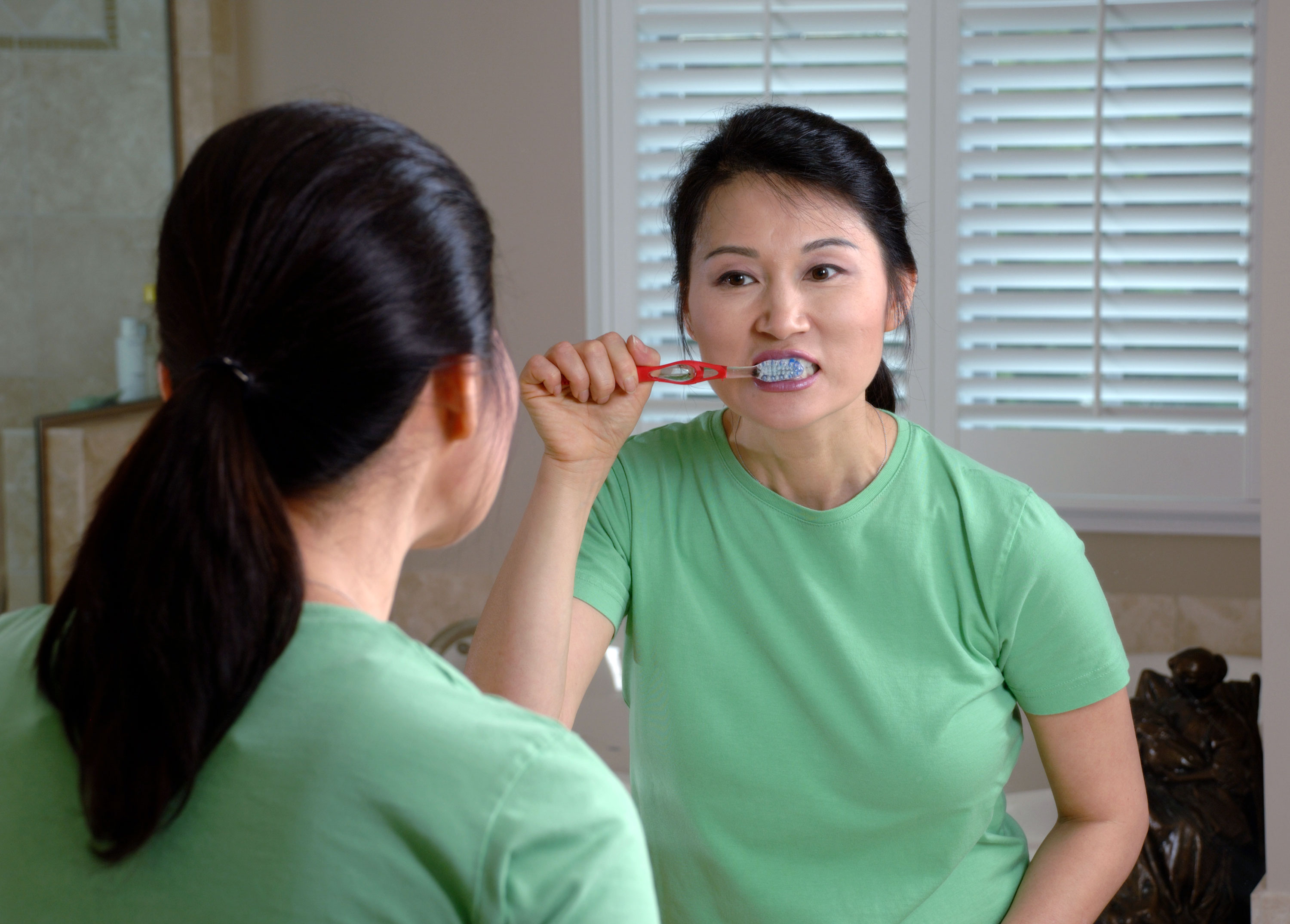 Title Woman Brushing Teeth Description An Asian woman brushing her teeth while looking in a mirror. Topics/Categories People -- Adult Type Color, Photo Source National Cancer Institute (NCI)